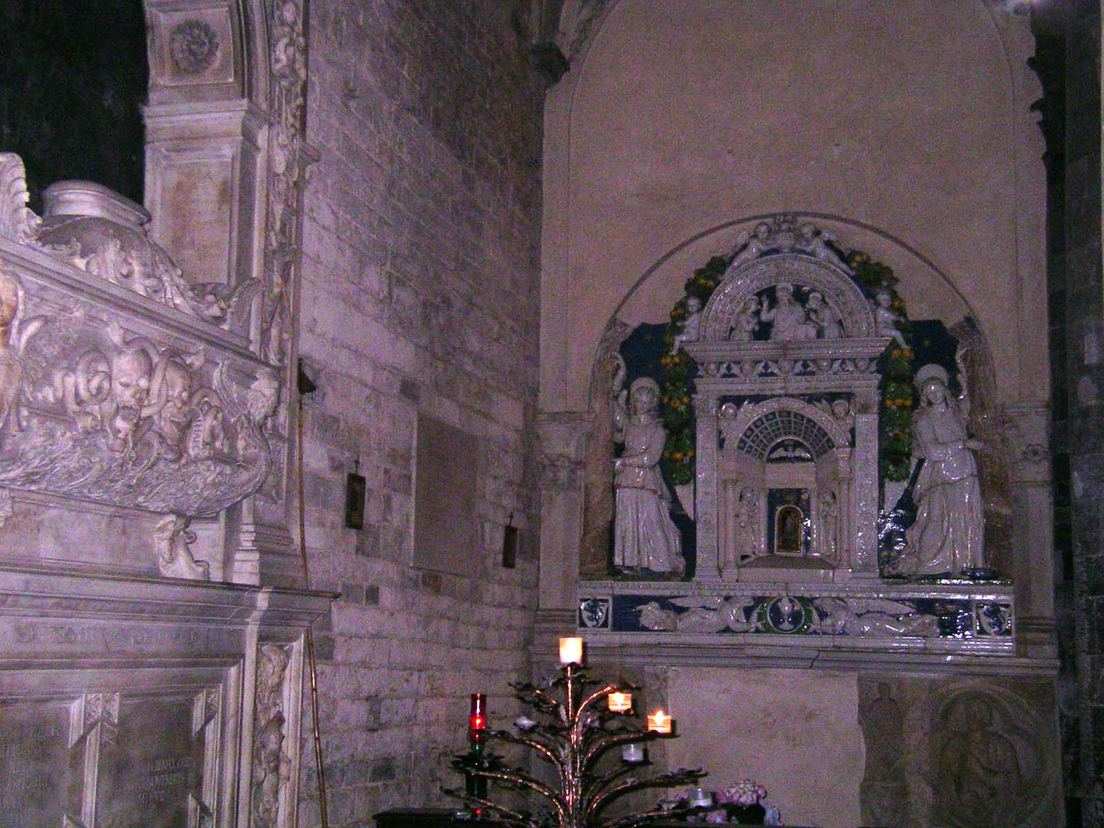 Santi Apostoli, Tabernacolo by Giovanni della Robbia, church, inside view in Florence, Italy.